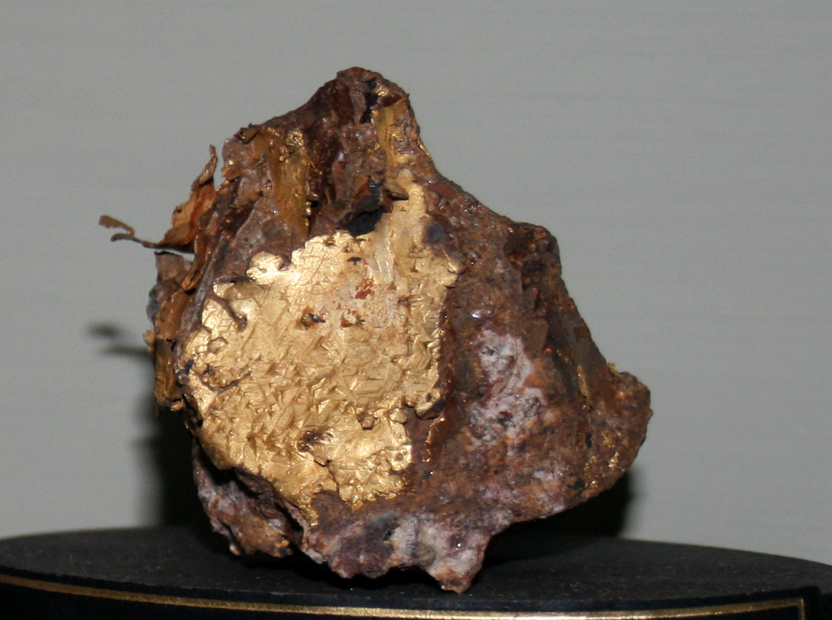 Natural occuring gold from collection of National Museum, Prague, Czech Republic, originally from Czech Republic